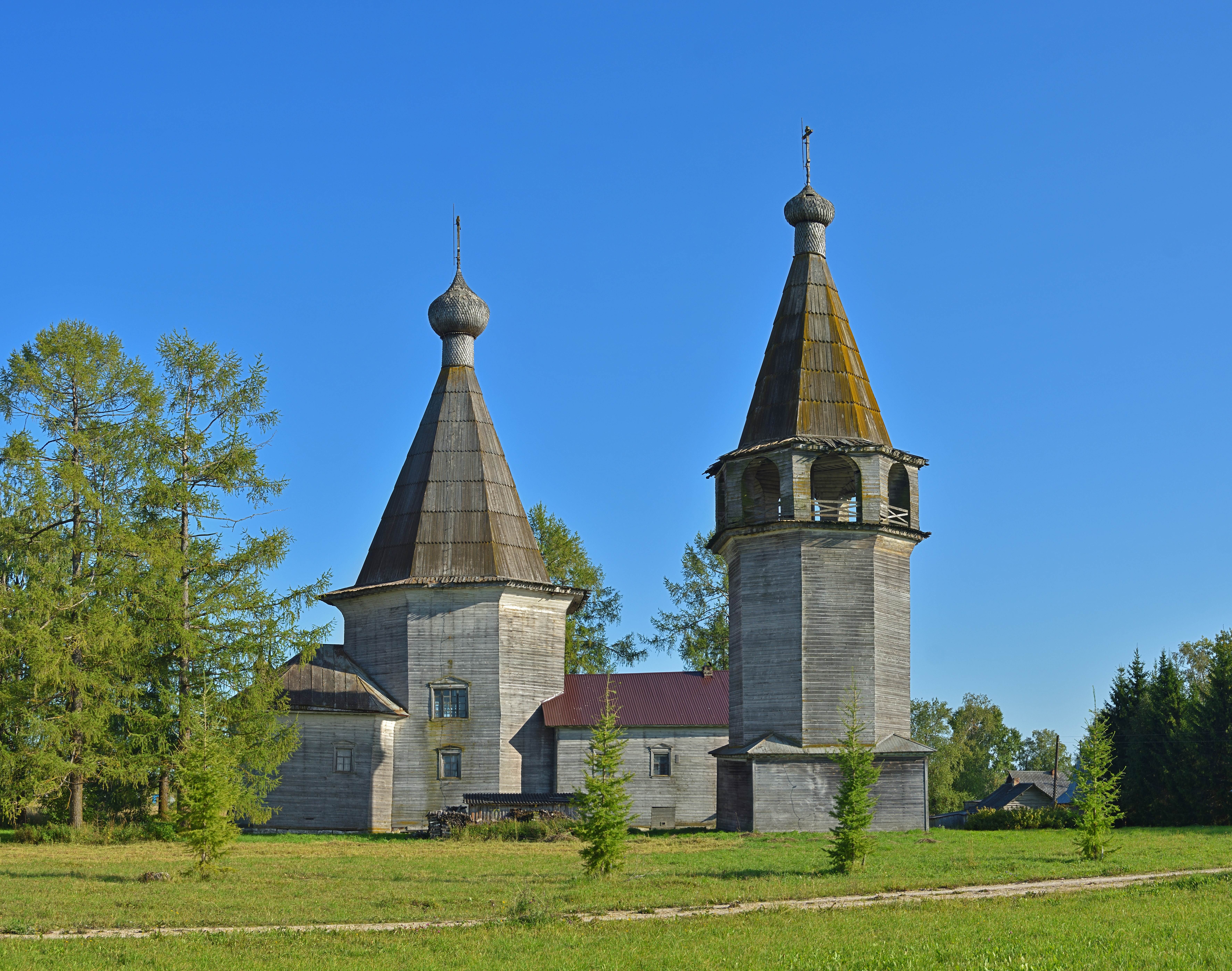 Oshevensky Pogost, Kargopolsky district, Arkhangelsk oblast, Russia